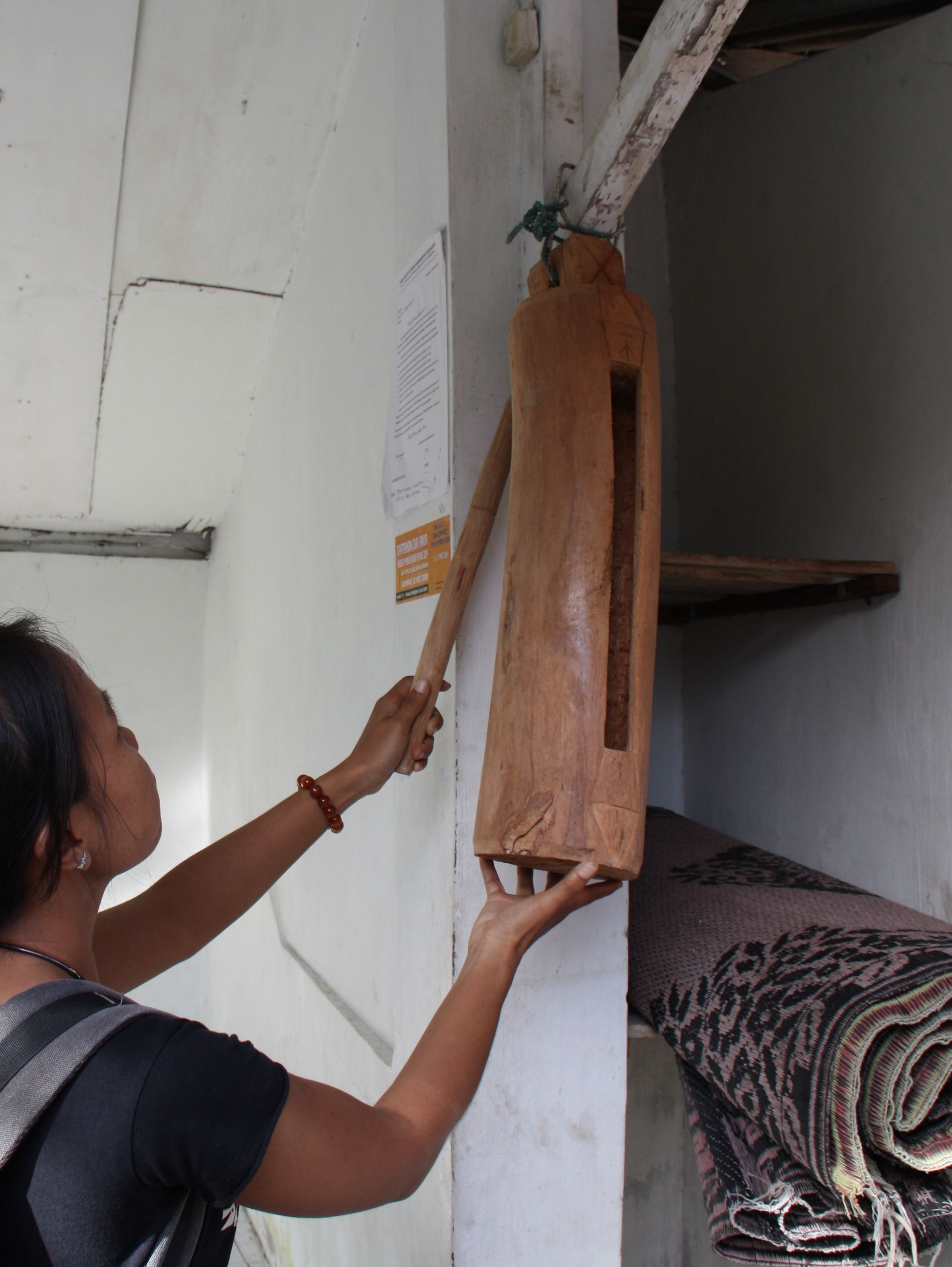 Slit drum, Yogyakarta, Indonesia